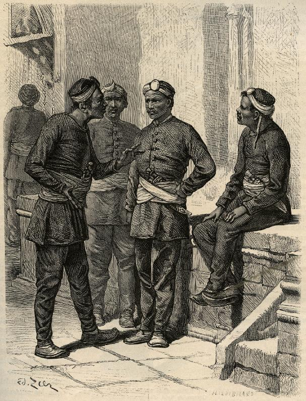 Nepalese national soldiers photographed on 1885 AD by Gustav Le Bon (died 1931)